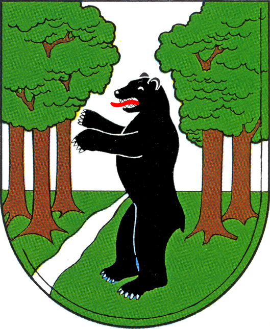 Coat of arms of Treptow.